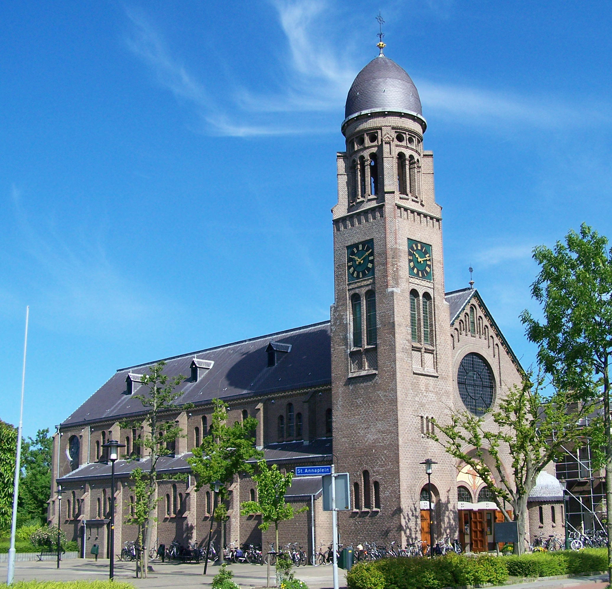 Church "Heilig Hart van Jezus" in De Noord in Heerhugowaard at the Middenweg. Made in 1910 by architect C.P.W. Dessing.